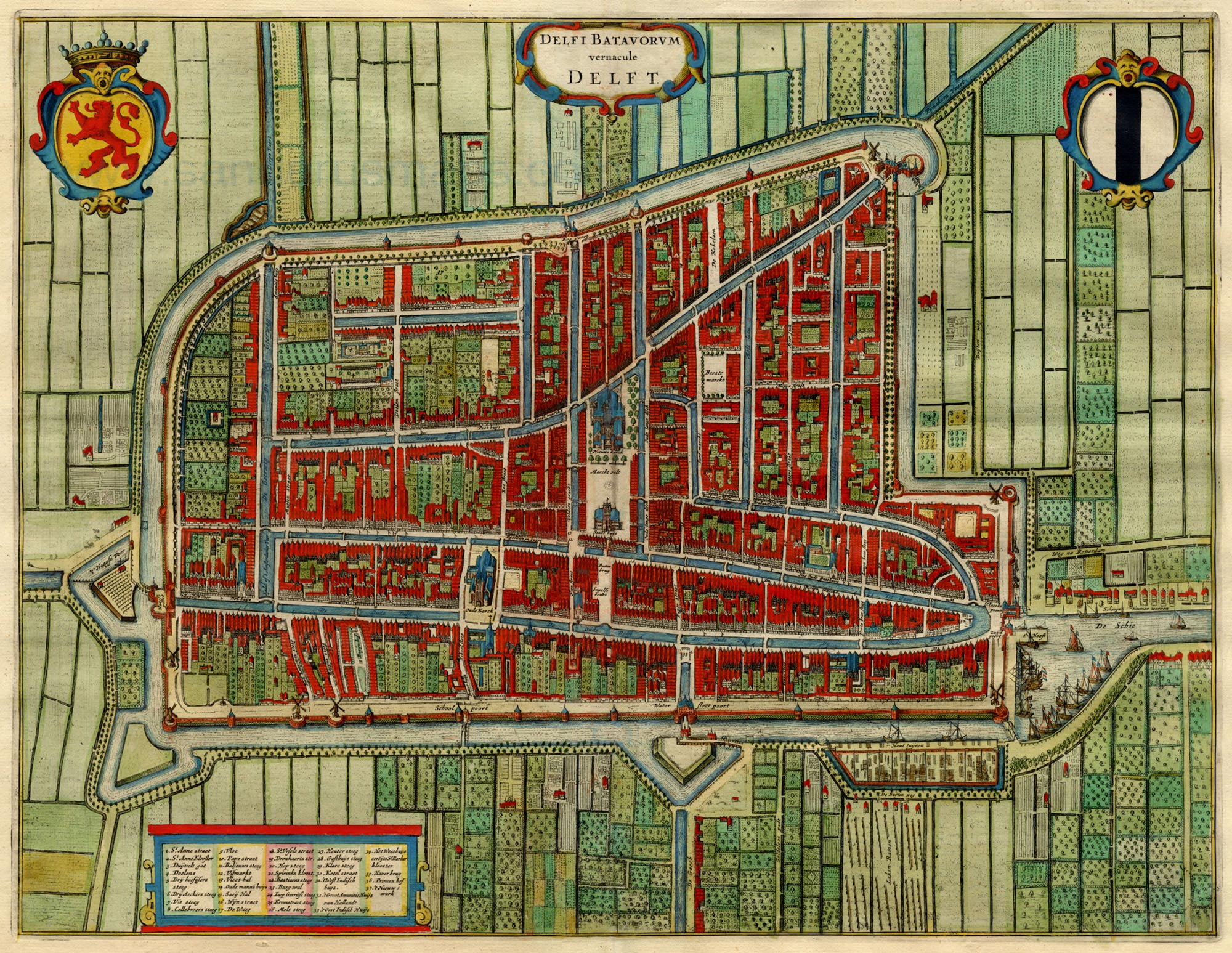 Antique_map_of_Delft,_Netherlands_by_Blaeu_J._1649.jpg